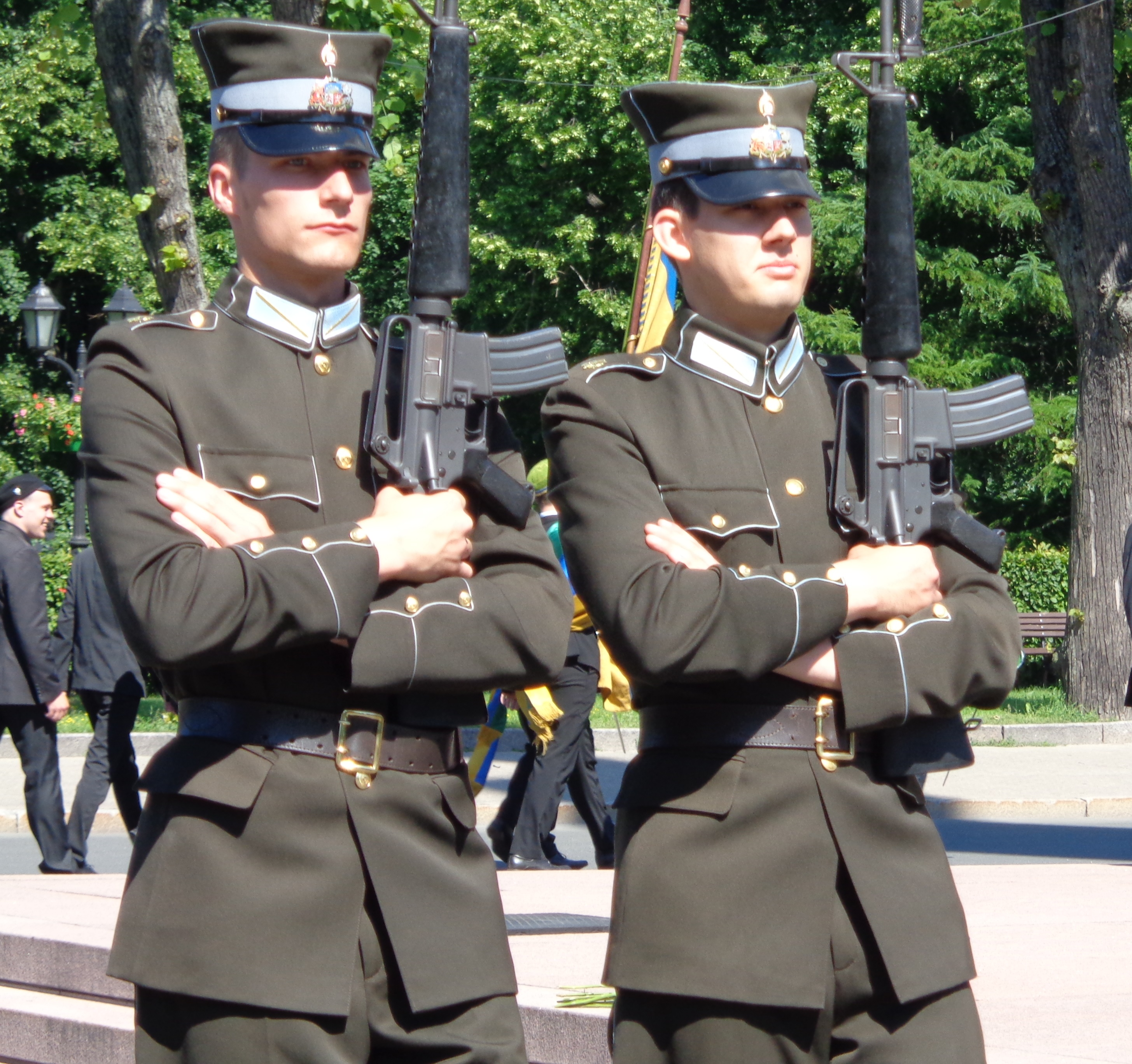 Two sergeant majors of the Latvian Guard of Honour at the Freedom Monument in Riga